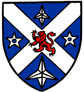 The arms of Stirling County Council.